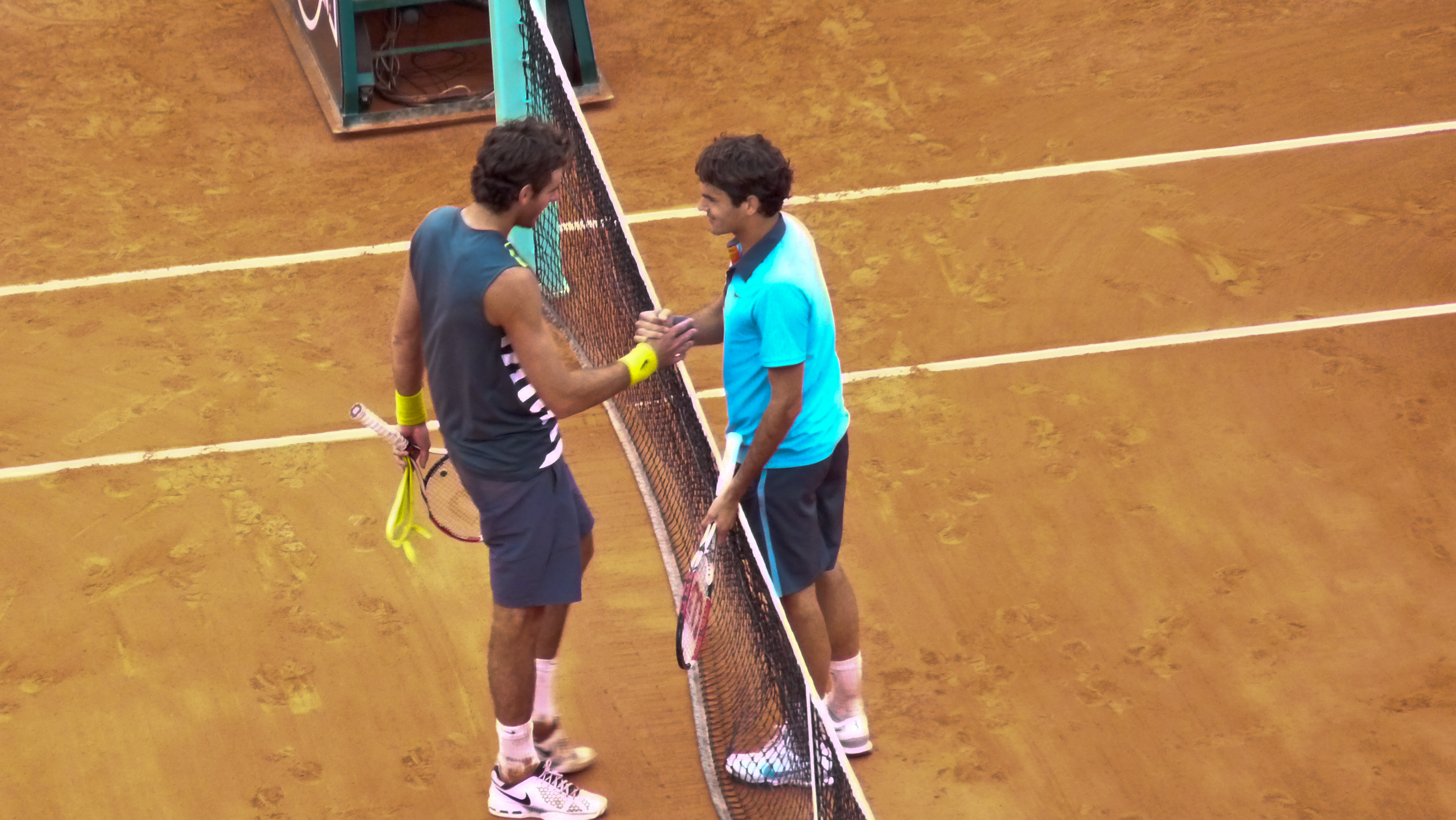 Juan Martín del Potro and Roger Federer shake hands at the end of the 2009 French Open semifinal